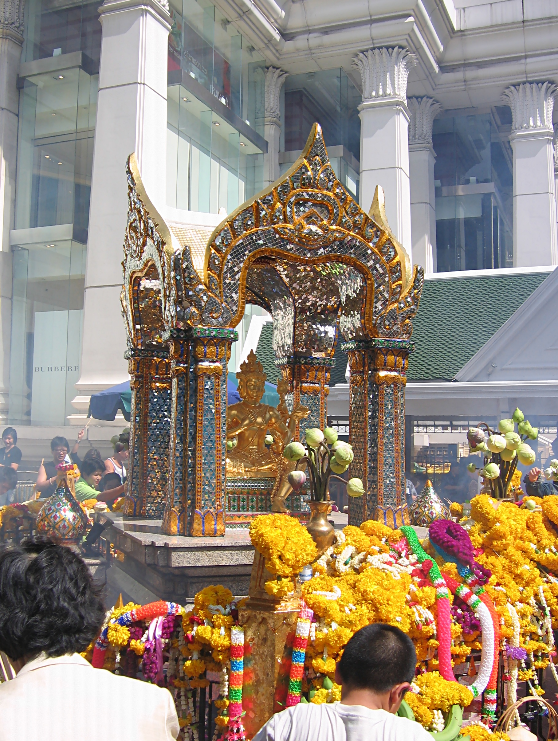 Restored Brahma statue at Erawan Shrine, Bangkok, Thailand.